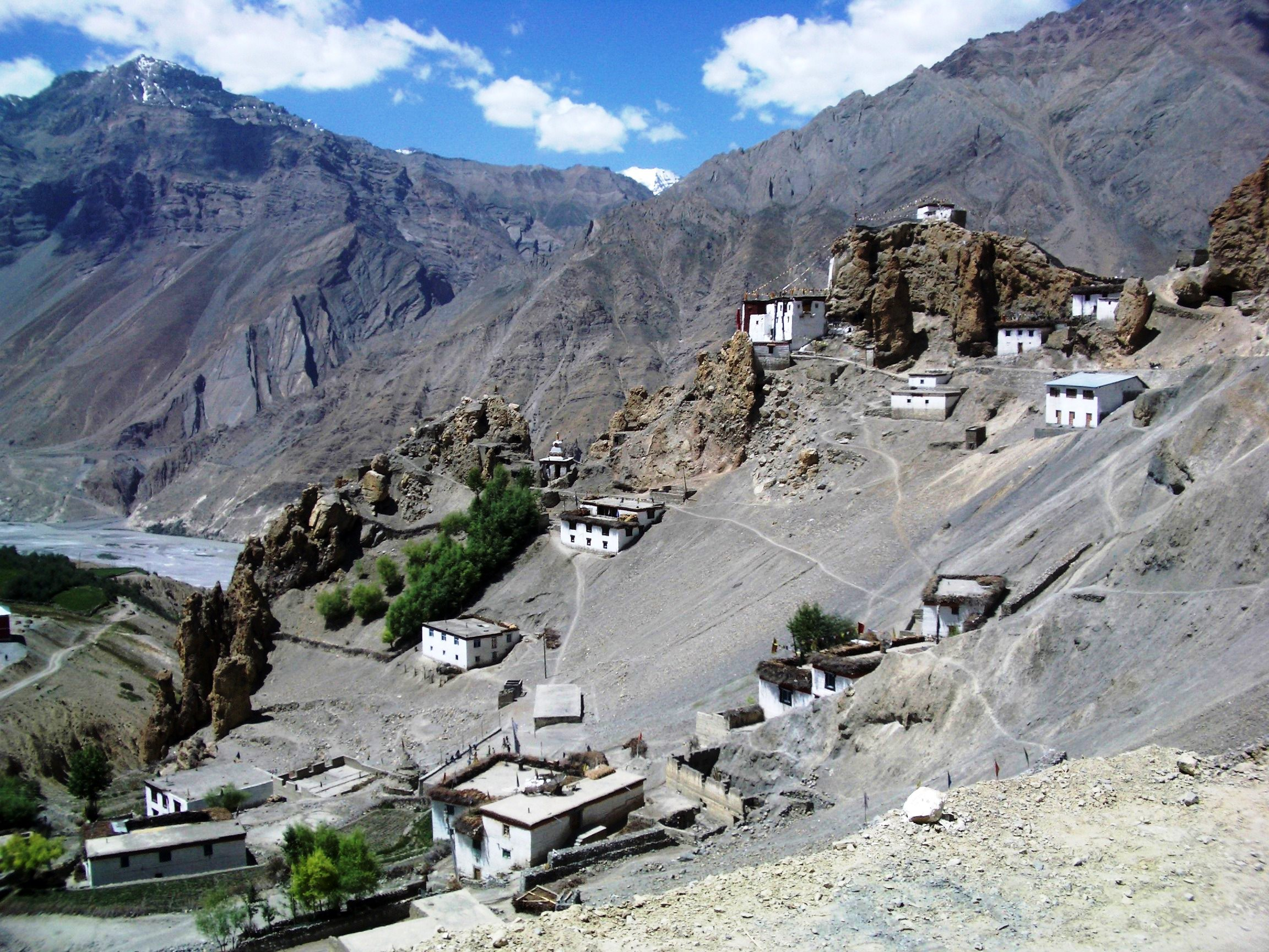 I took this photo on my trip to Spiti in 2004.